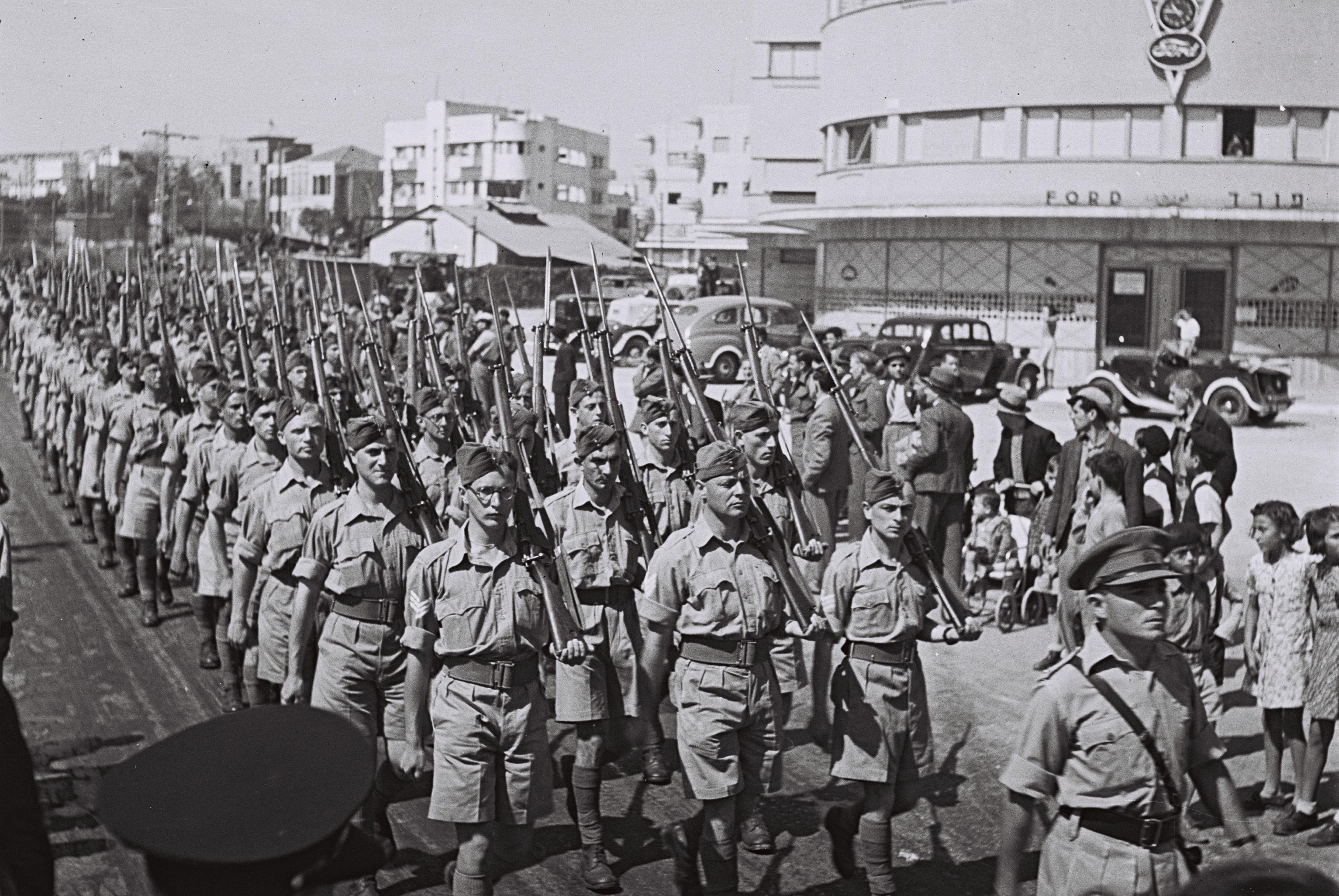 JEWISH SOLIDERS IN THE BRITISH ARMY MARCHING ON "PETAH TIKVA" ROAD IN TEL AVIV ON "JEWISH SOLDIERS DAY". יום החייל היהודי. בצילום, מצעד של חיילים יהודים המשרתים בצבא הבריטי, עובר בדרך פתח תקוה בתל אביב.